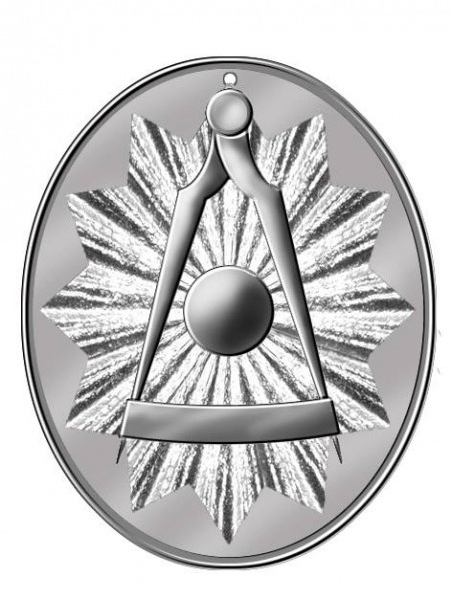 A jóia de Friedrich Ludwig Schröder ainda hoje enfeita o colar do Grão Mestre da loja Hanseatic.